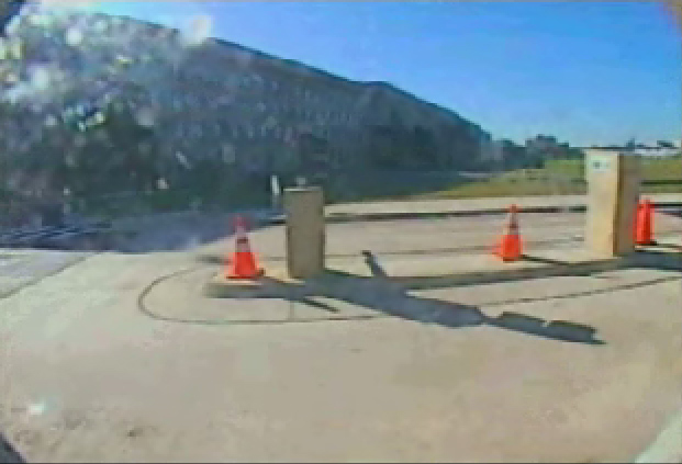 Pentagon security video (2 of 9)